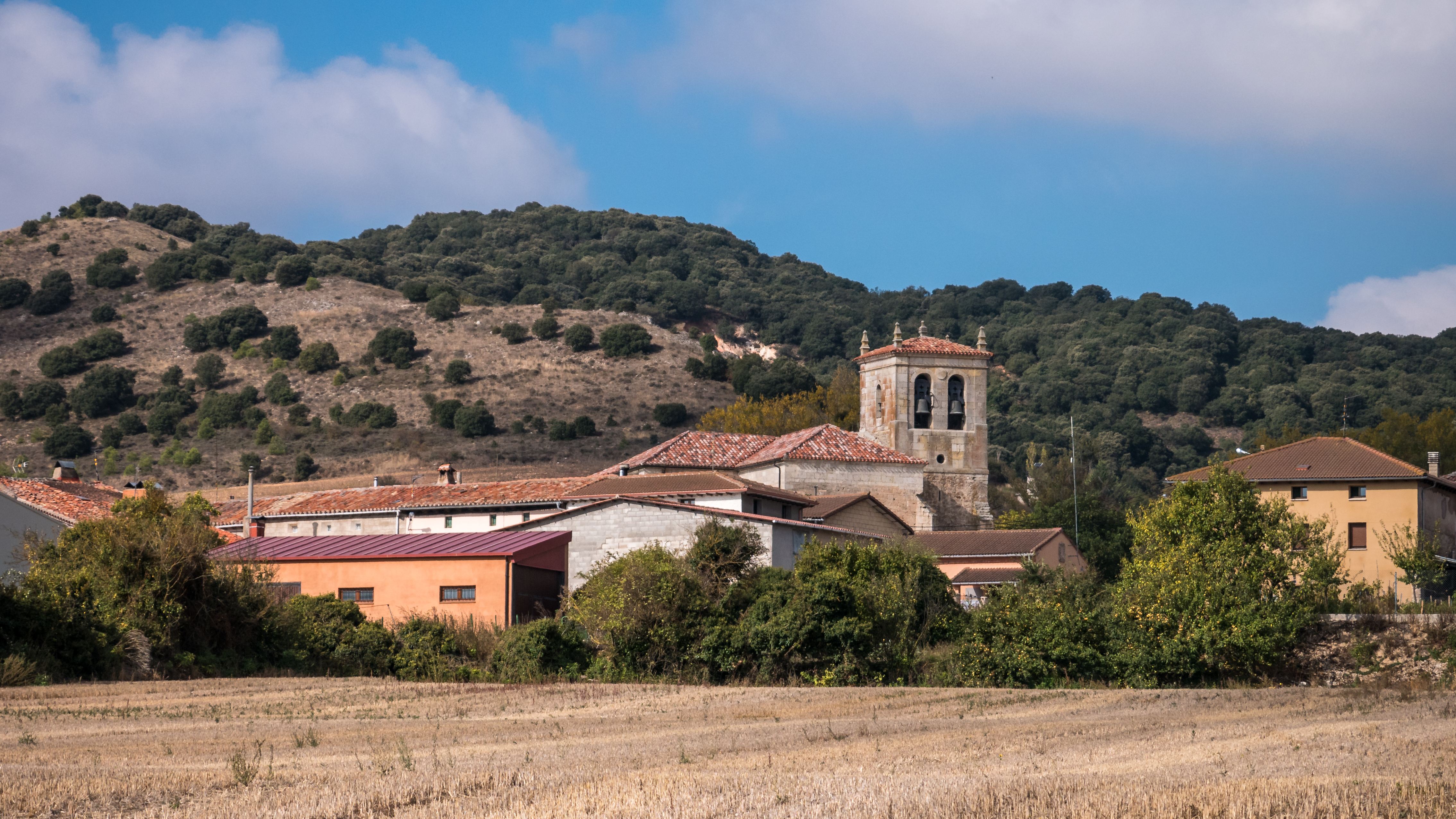 Santa Olalla de Bureba. Burgos, Castilla-León, Spain